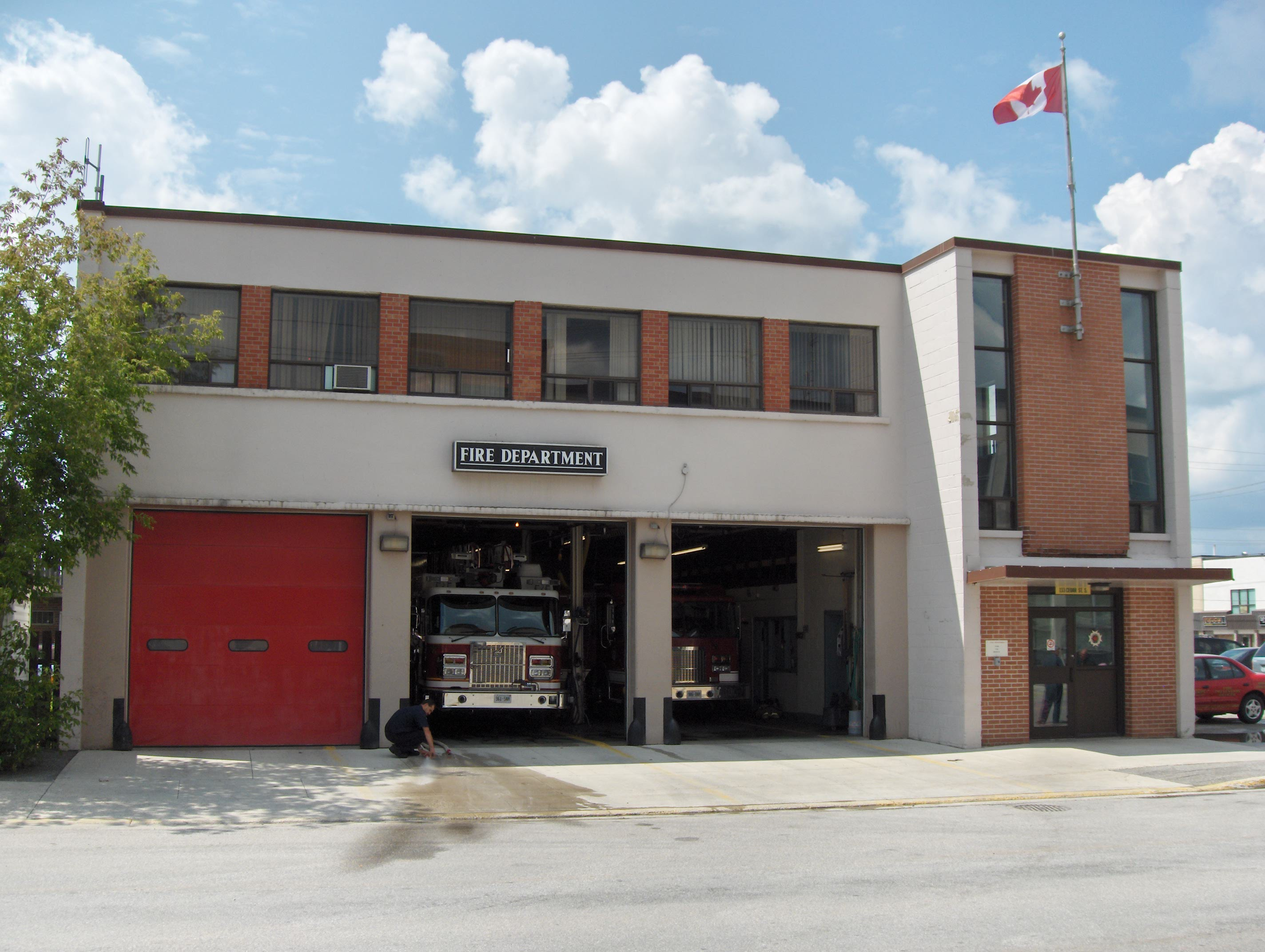 Author - John Monaghan Source - HP Photosmart R717